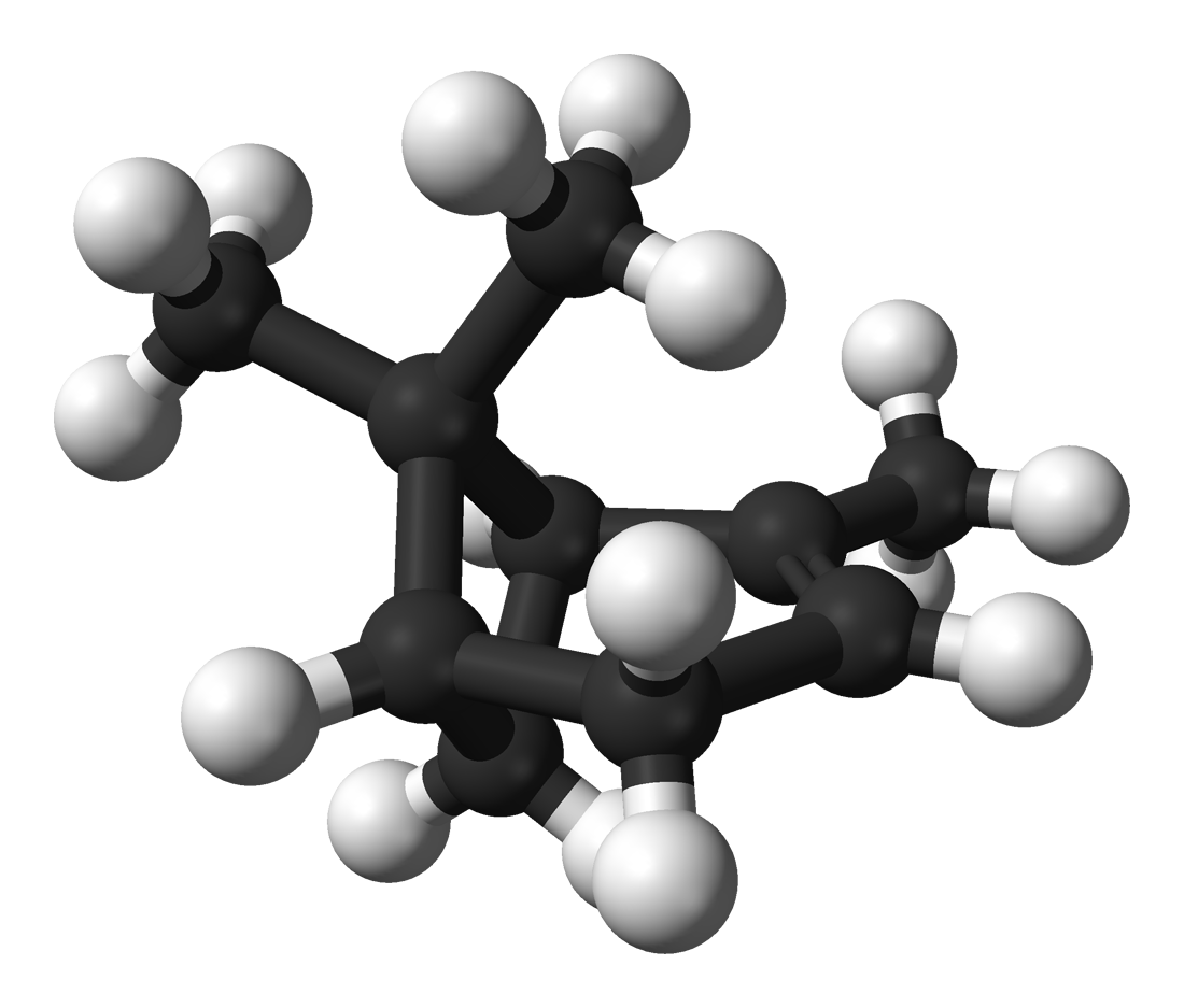 Ball-and-stick model of the (−)-α-pinene molecule